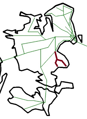 Map of railways on Zealand (Sjælland) in Denmark with the private railway Østbanen between Køge, Hårlev and Rødvig/Fakse Ladeplads in brown.